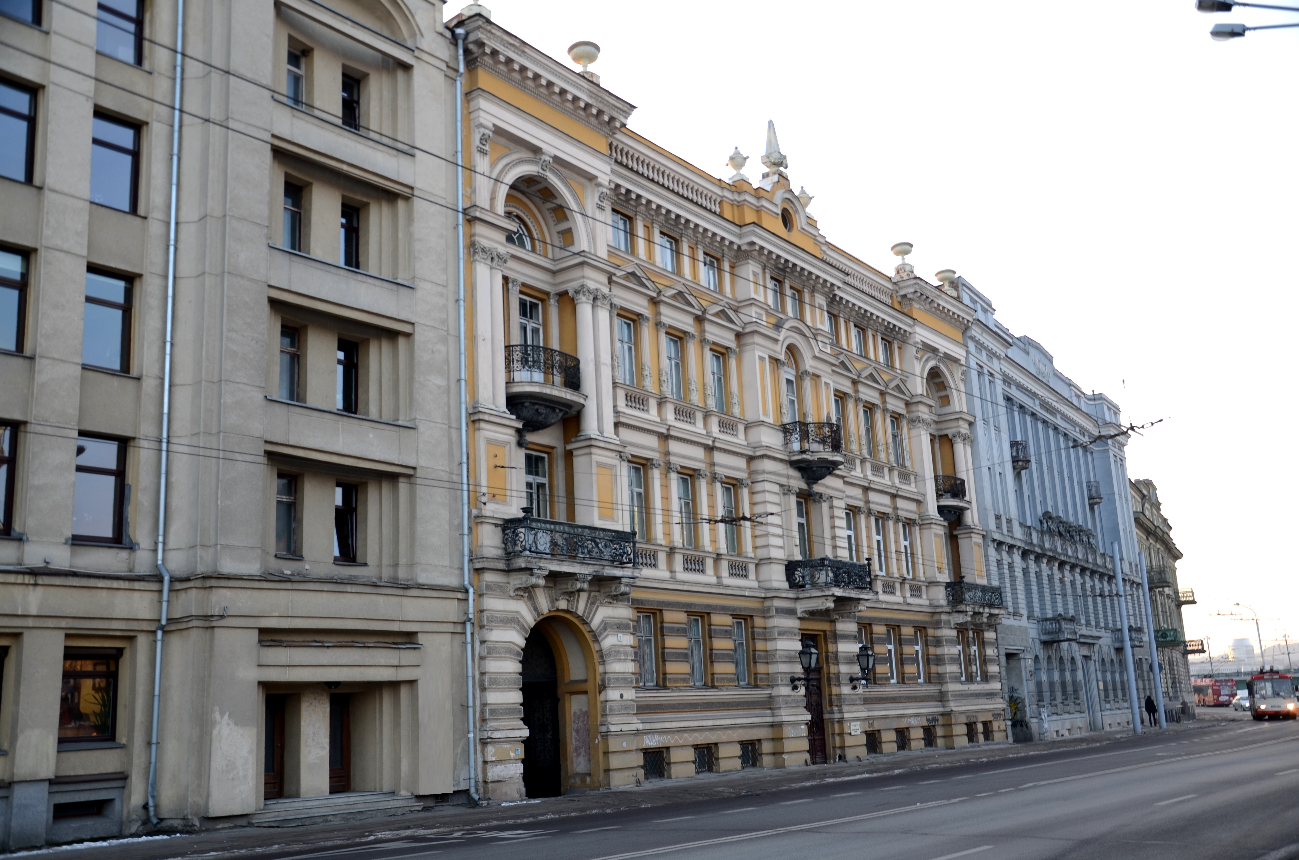 Houses #7-#8-#9 on Žygimantų-street in Vilnius